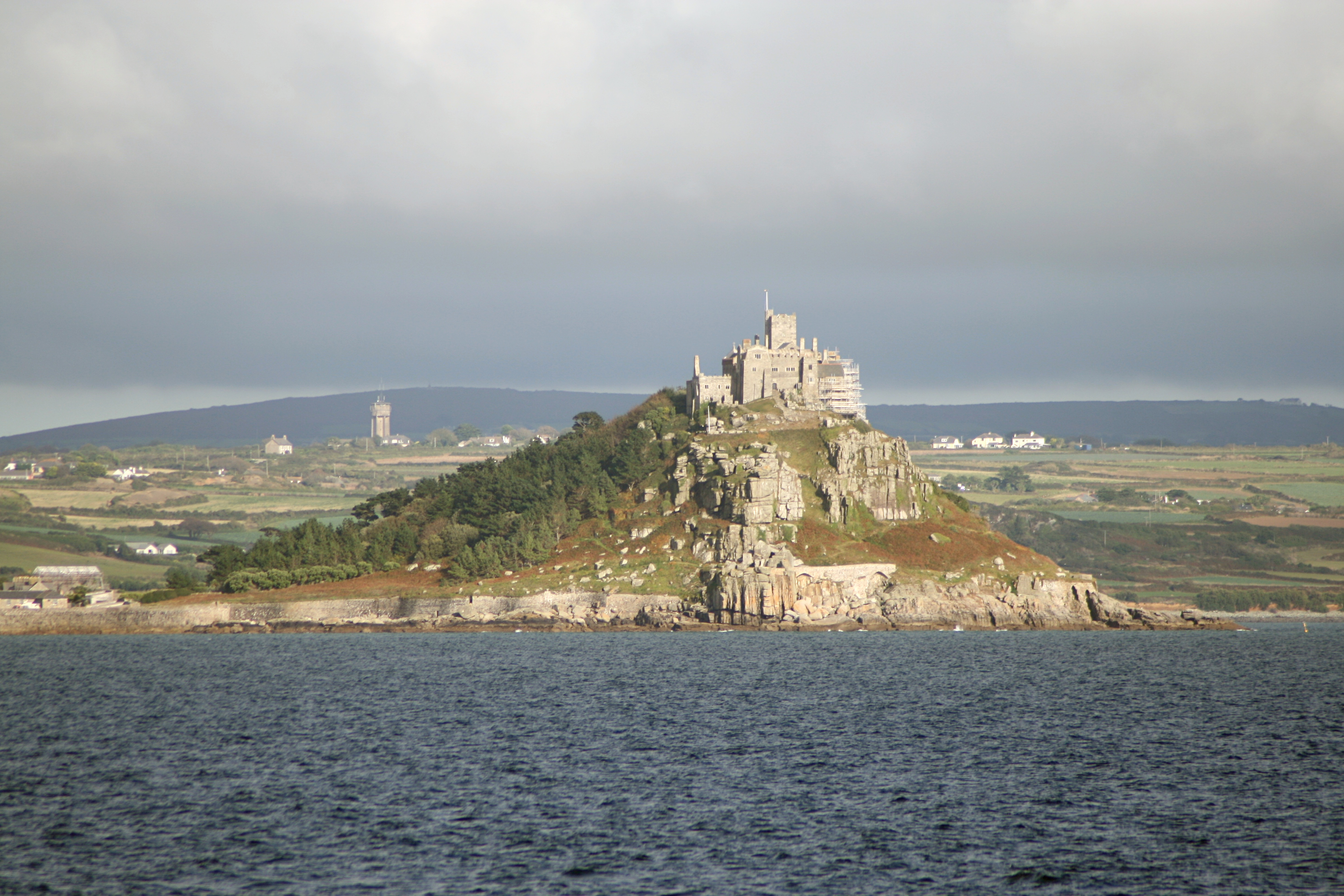 St. Michael's Mount, from Penzance